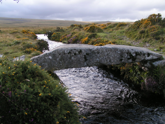 Clapper bridge near Scorhill Stone circle